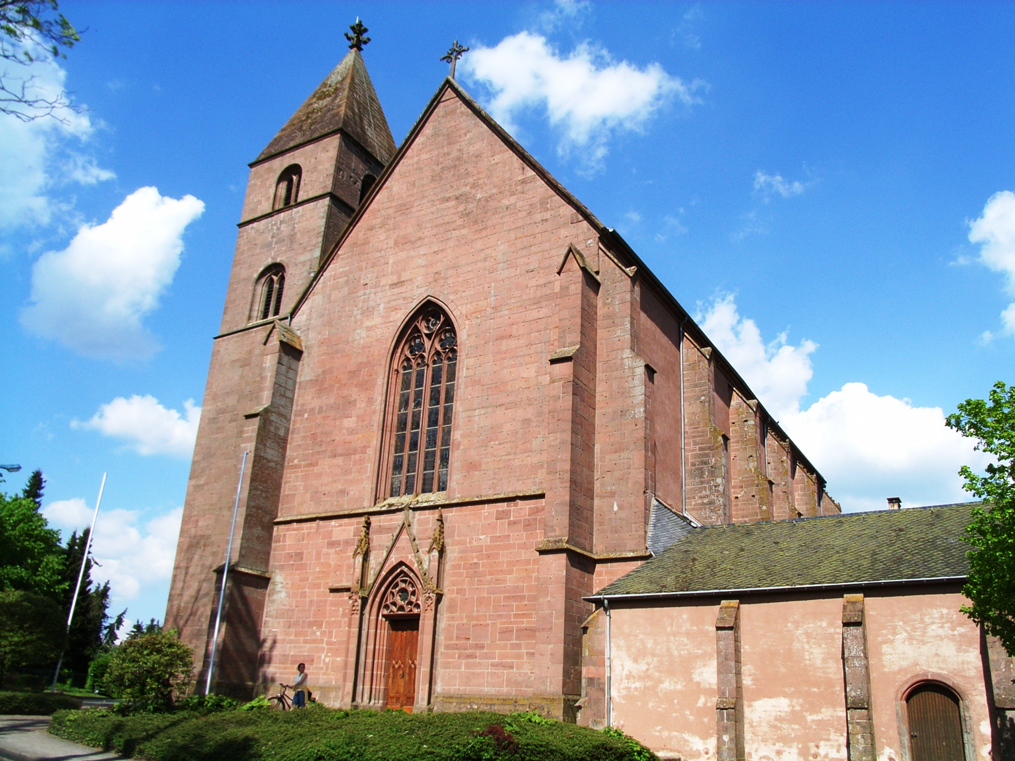 Stiftskirche in Kyllburg, Germany. Exterior view from West.